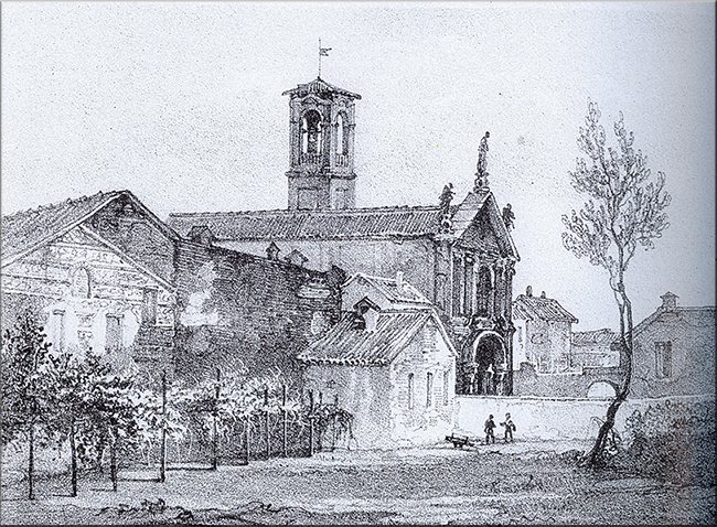 The church of San Maurizio and the old convent of Santa Margherita of Monza